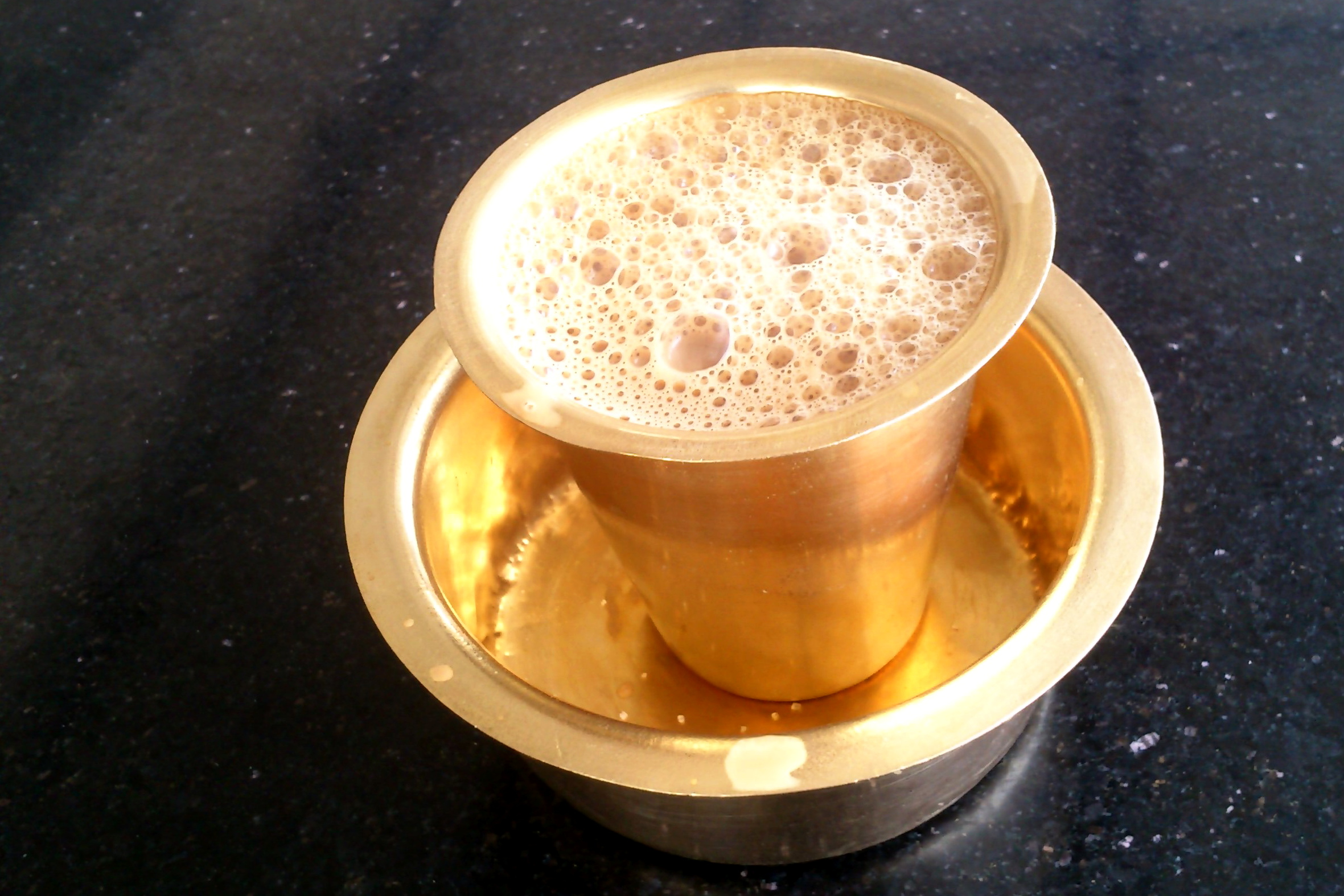 Filter Coffee in traditional Glass & Tumbler at Kumbakonam, Tamilnadu This media file is uploaded with Malayalam loves Wikimedia event - 3.